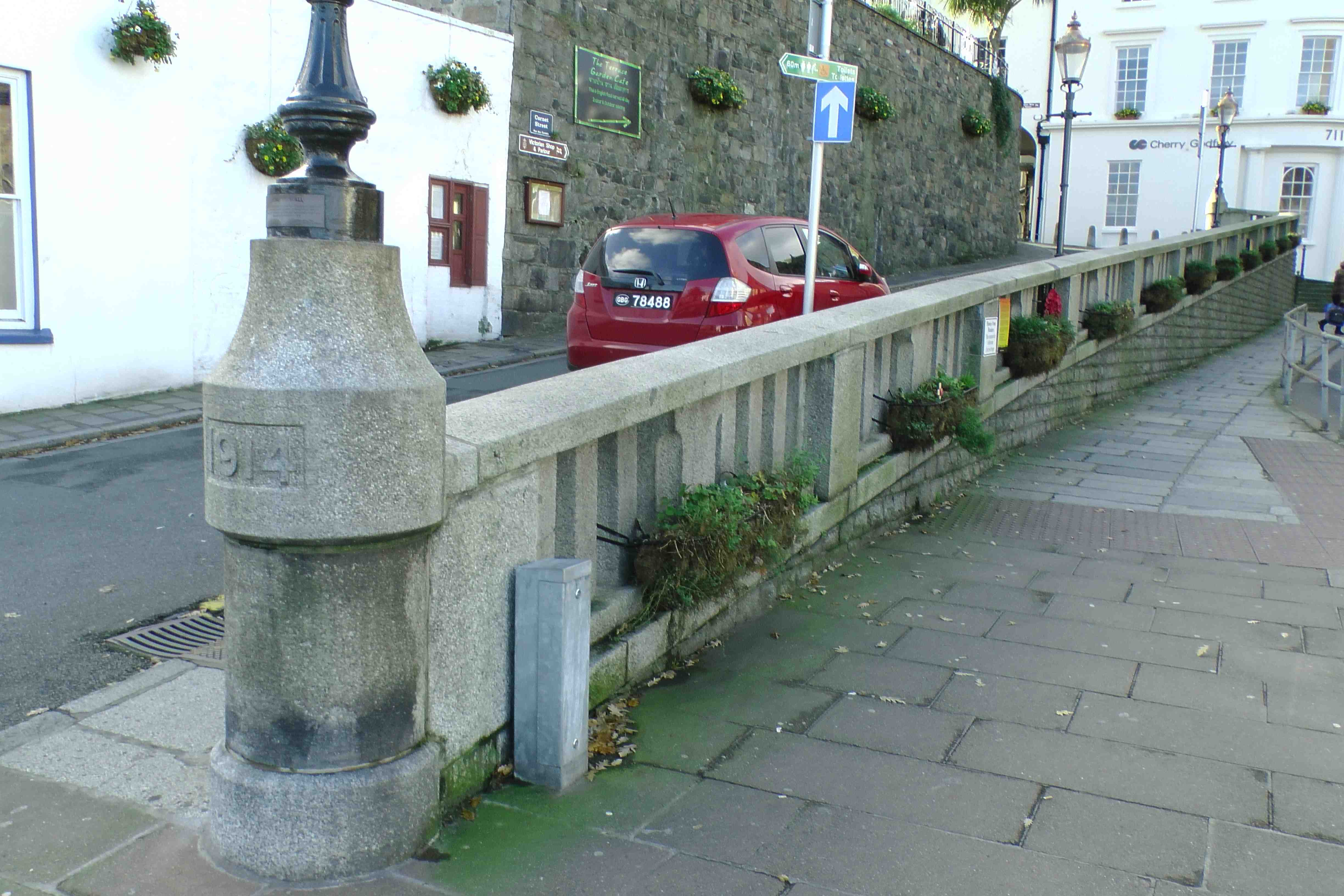 Memorial to Guernseymen who died in WW1. Named loafers wall after the elderly men who would sit or lean on the wall.